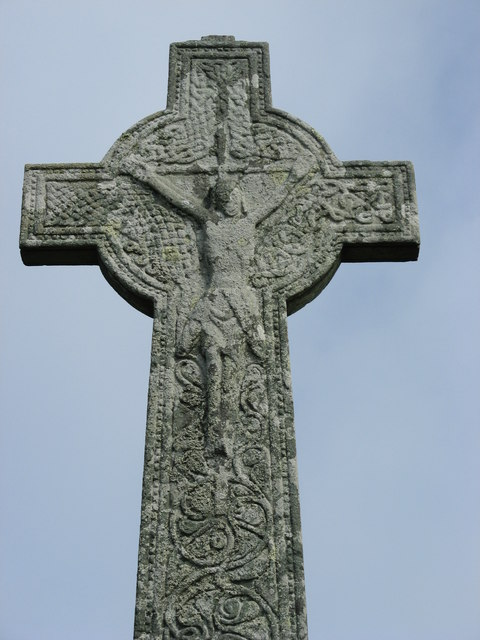 Oronsay cross Late 15th century stone cross.